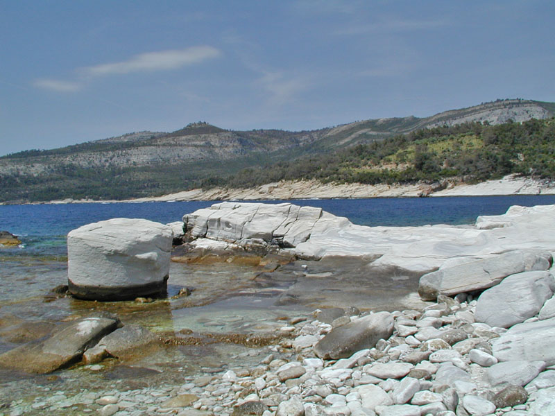 Photograph taken by Marsyas 13:59, 28 October 2005 (UTC)